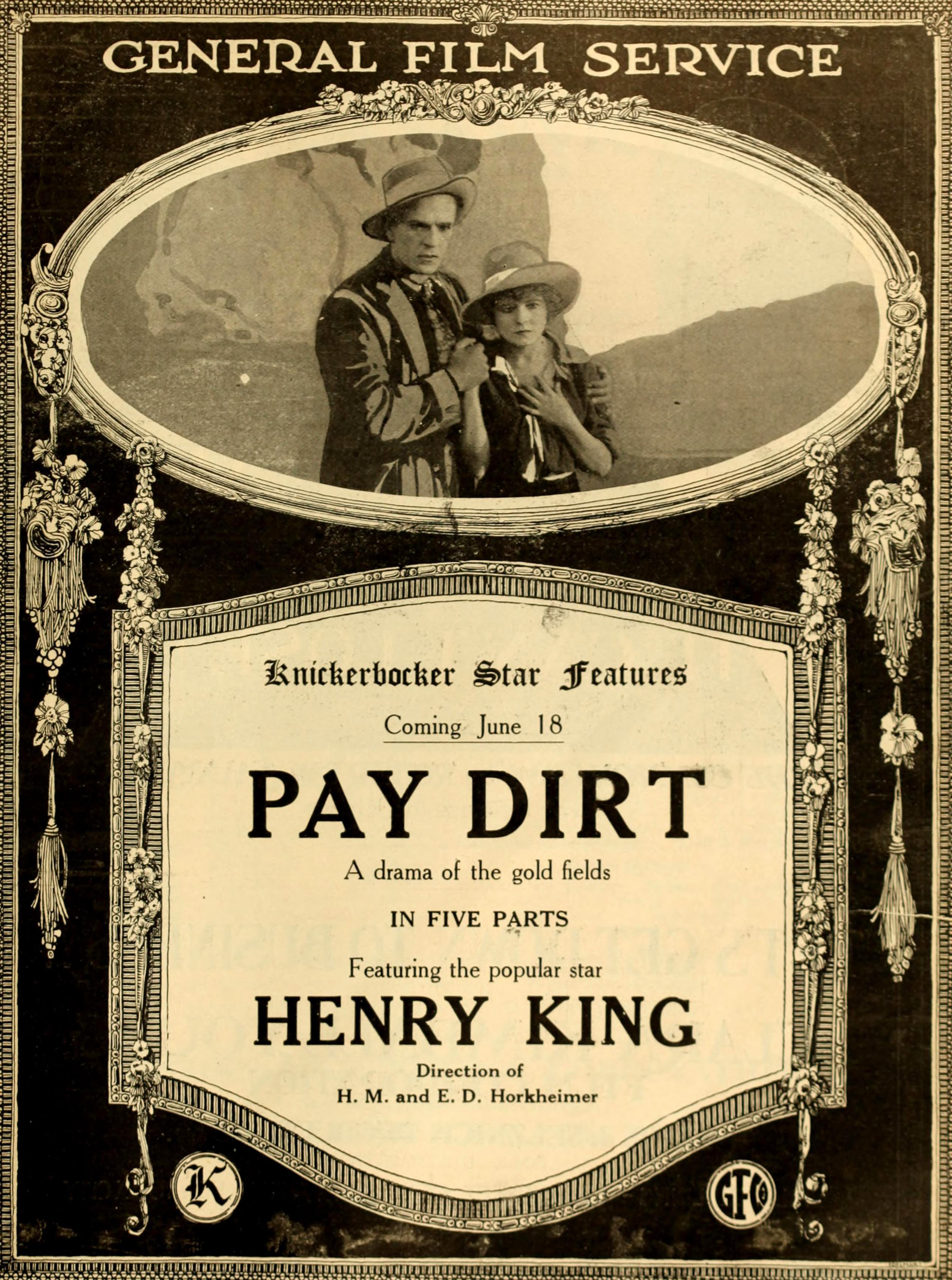 Advertisement in The Moving Picture World for Pay Dirt (1916) with Henry King.